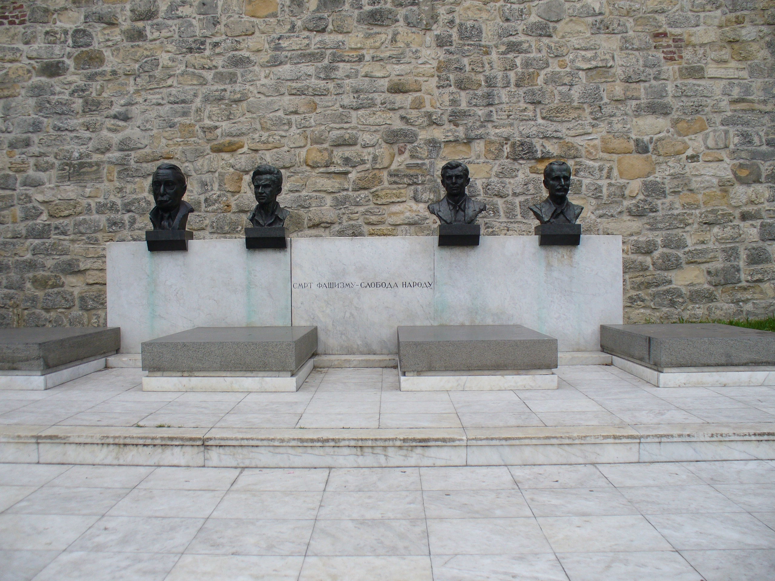 death to facism, monument in Kalemegdan, Belgrade, Serbia